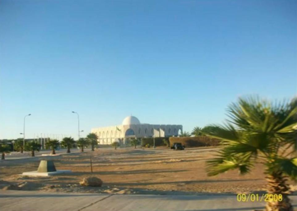 presidential palace